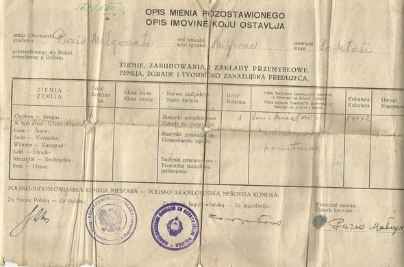 A document listing assets left by one of 14,000 Poles who emmigrated from Bosnia and Herzegovina to Poland in 1946.